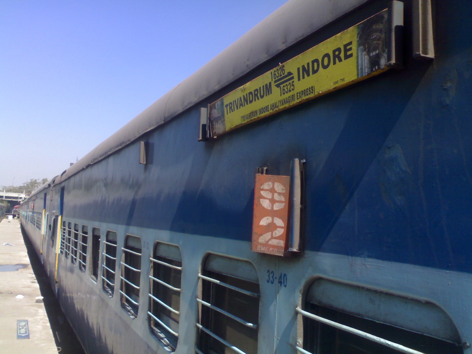 A sleeper coach in Indian trains. This is the S2 coach of 16325Ahilyanagari Express From Indore via. Bhopal to Trivandrum Central. Clicked by Anas Khan, from Indore